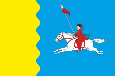 Flag of Red sloboda